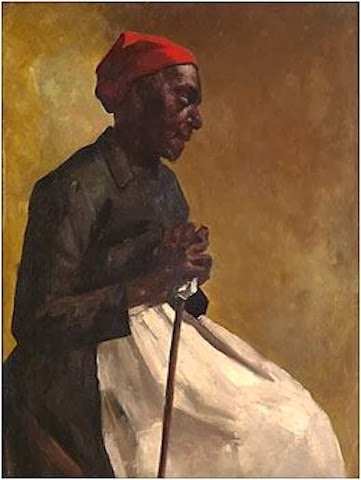 Arkansas Made, 1896-1900, Jenny Eakin Delony, her most poignant work.